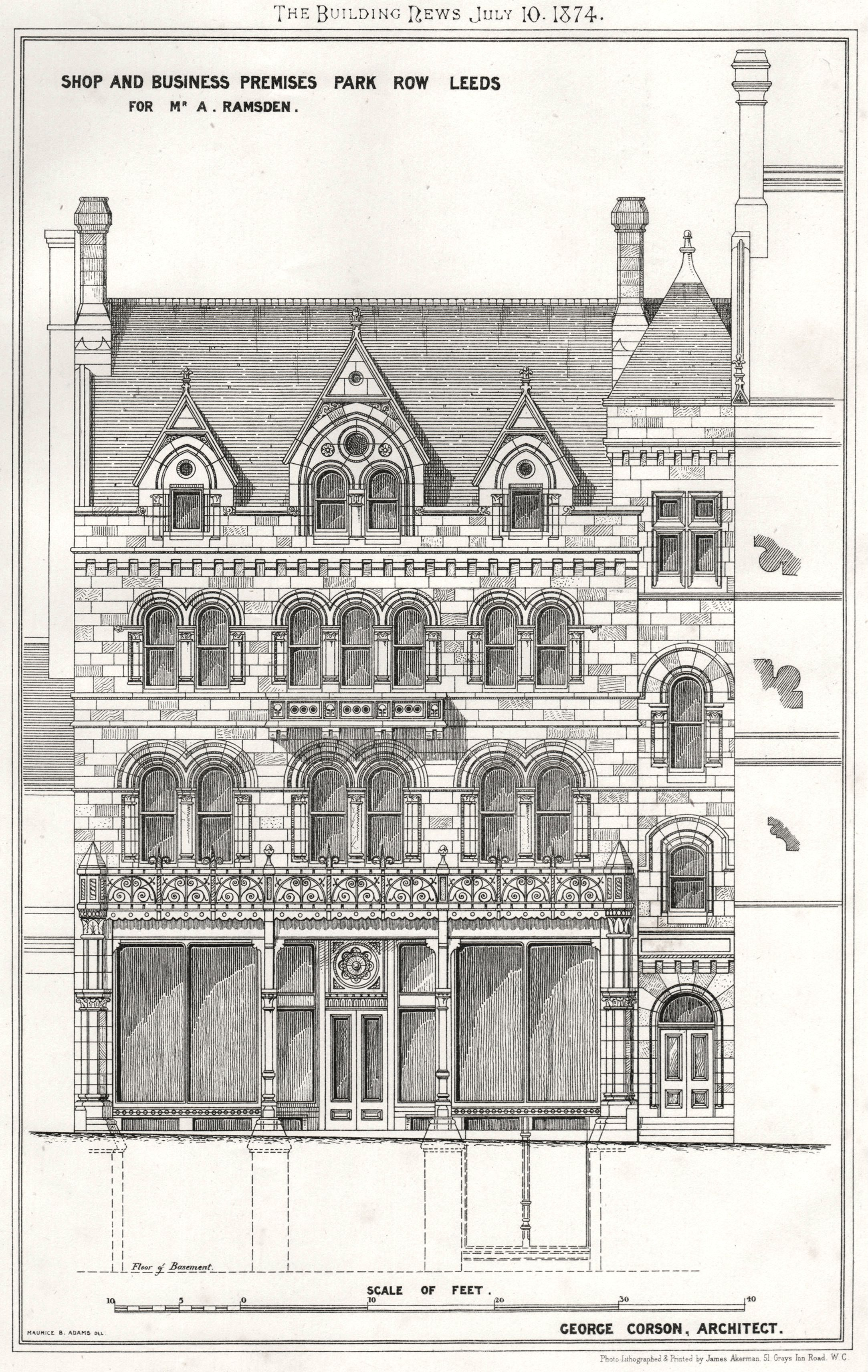 Drawing of former premises for Archibald Ramsden, Park Row, Leeds, West Yorkshire, England. Demolished.